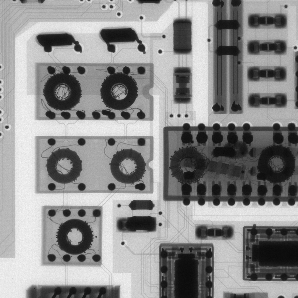 This is a x-ray zoom into an old token ring network adapter board.